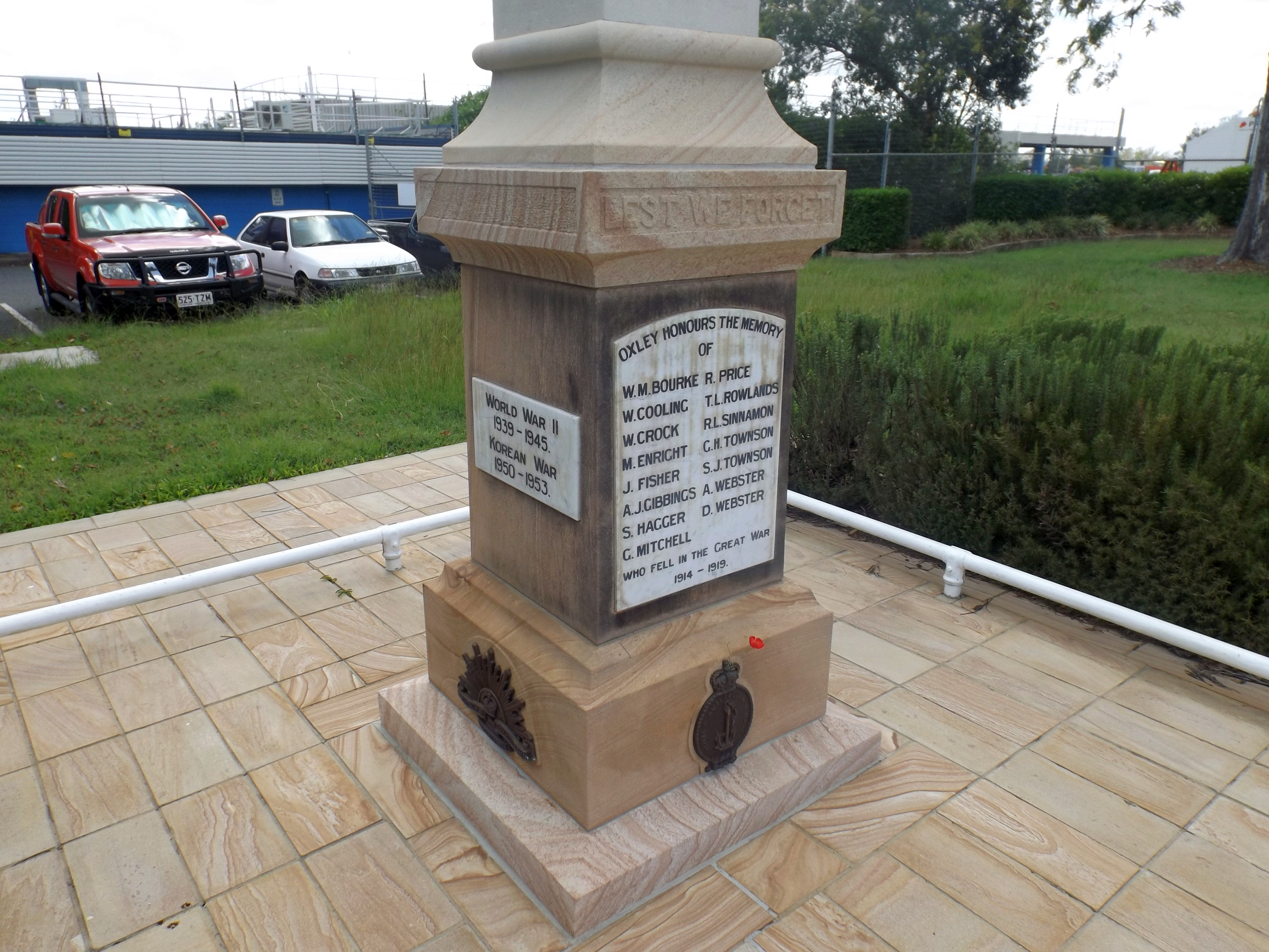 Close-up of Oxley War Memorial at Oxley, Brisbane, Queensland, Australia.